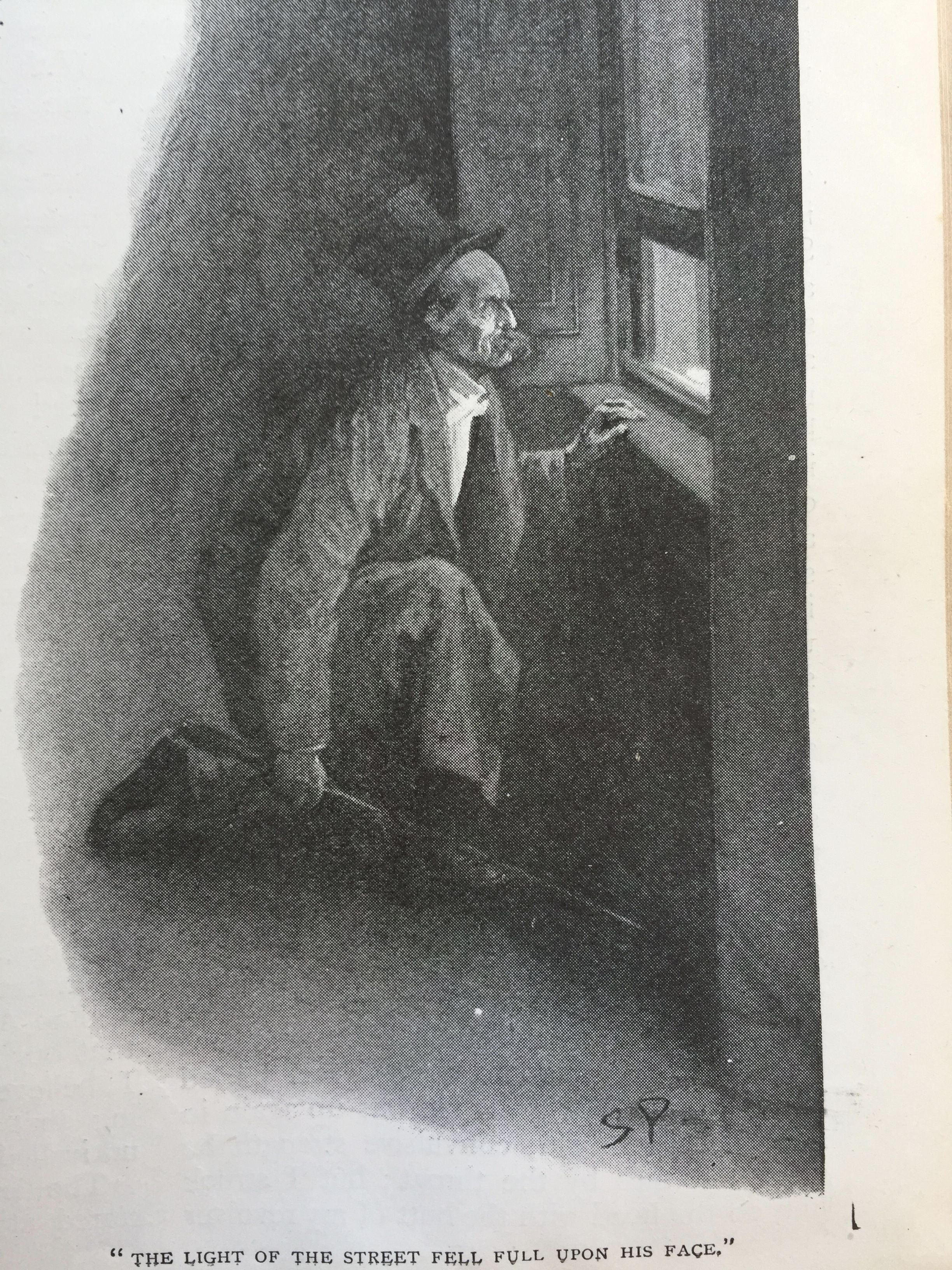 Arthur Conan Doyle, "The Adventure of the Empty House" (1903), Illustration by Sidney Paget, in The Strand Magazine. Original caption:"The light of the street fell full upon his face."